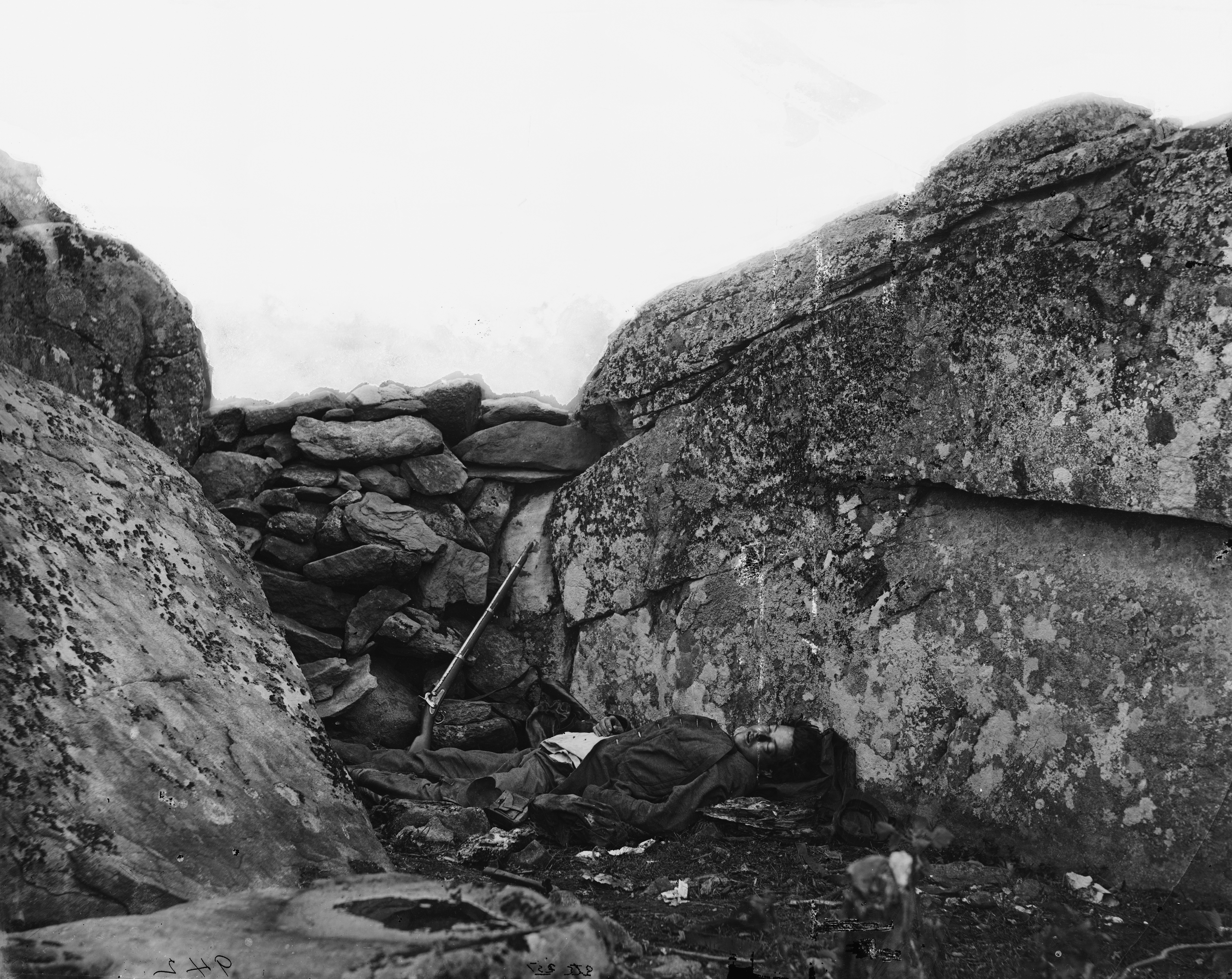 Photograph from the main eastern theater of the war, Gettysburg, June-July, 1863.